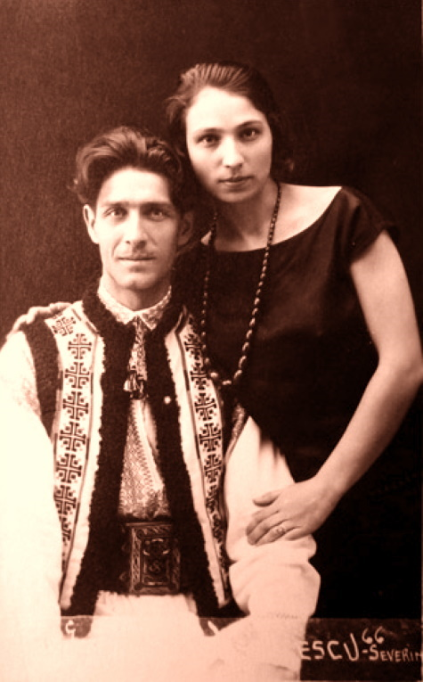 Corneliu Zelea Codreanu with his wife Elena Ilinoiu.